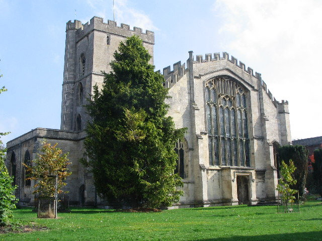 All Saints parish church, Westbury. This 600 year old church stands on the site of an even earlier structure.